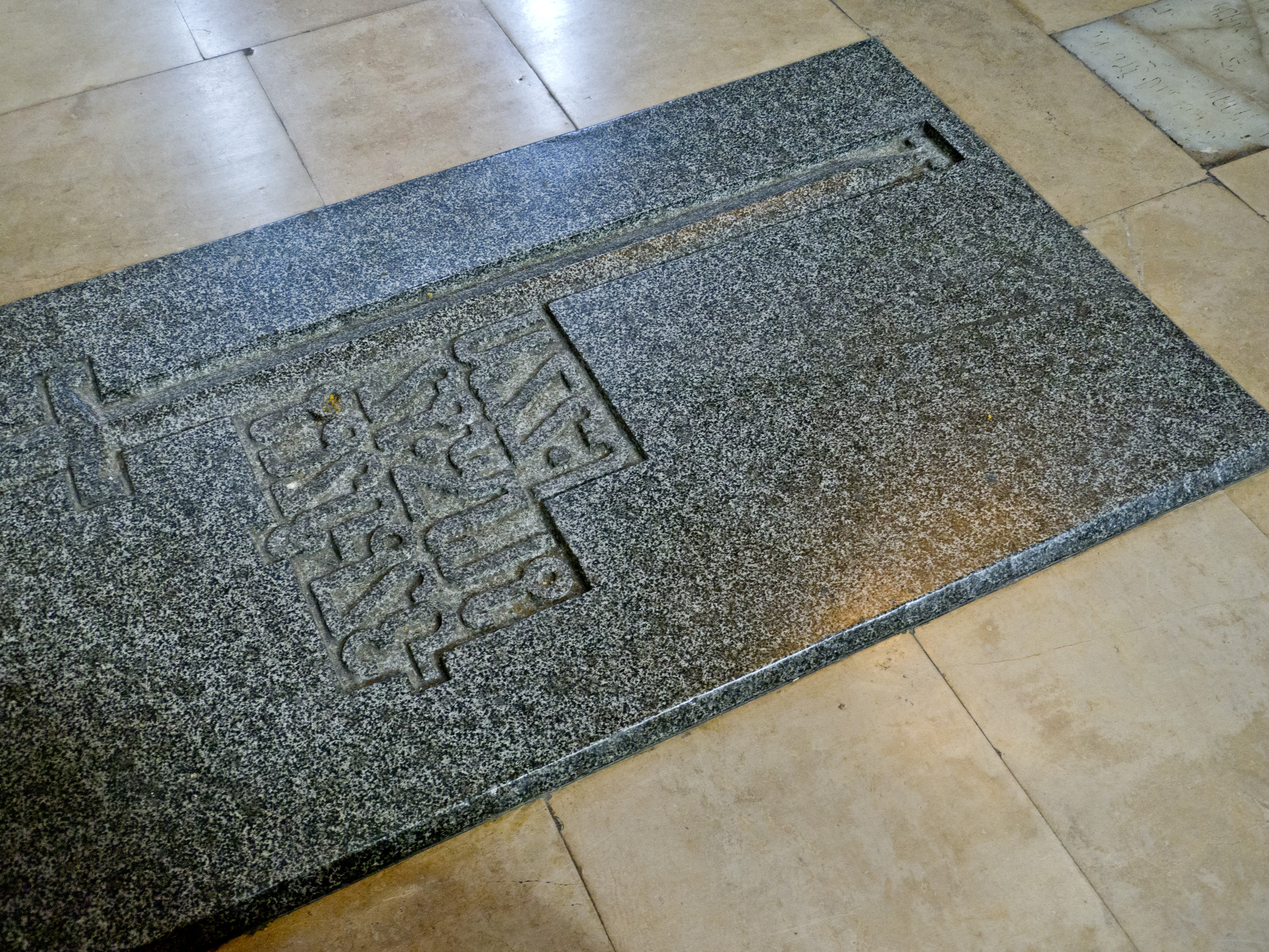 Svetitskhoveli Cathedral, tomb of king Vakhtang Gorgasali (ვახტანგ გორგასალი)